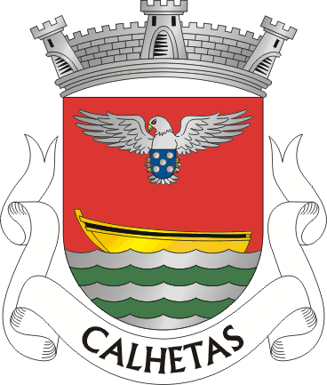 Crest of Calhetas parish, Ribeira Grande municipality (Portugal)